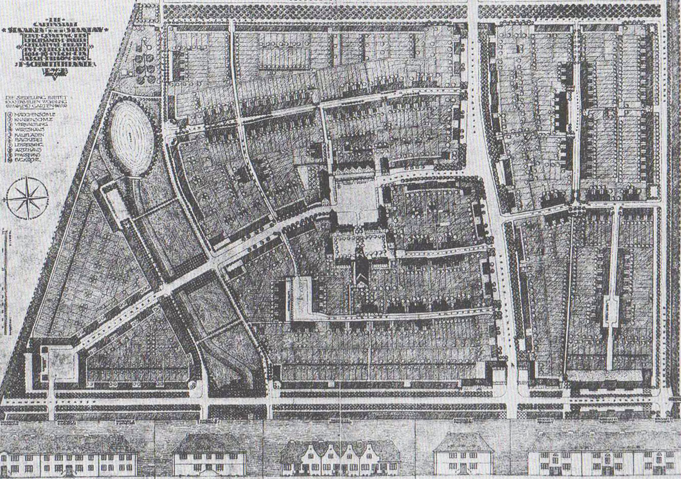 Urban layout of the Garden City of Staaken near Berlin, drawing of 1917